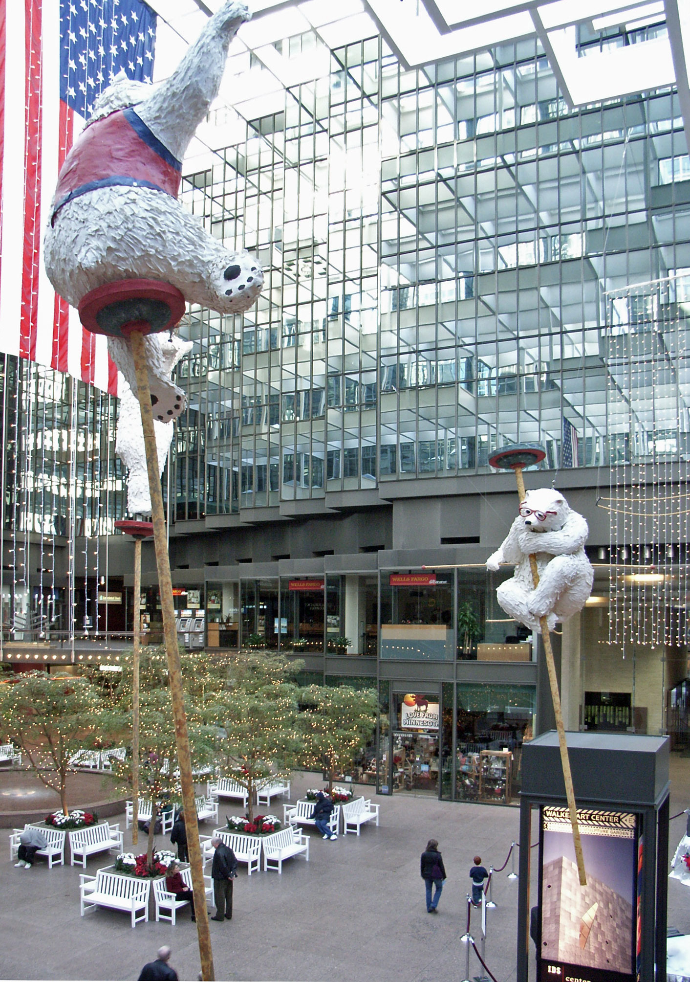 IDS Center, Minneapolis, Minnesota